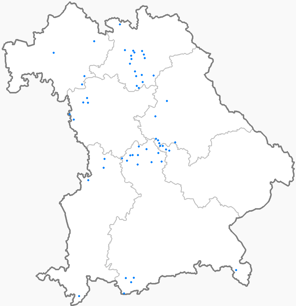 Approximate location of karst springs in Bavaria (Germany). The file shows karst springs are listed in the "List of karst springs in Germany" in the german Wikipedia. For questions and suggestions contact the author. Country border District border Karst spring